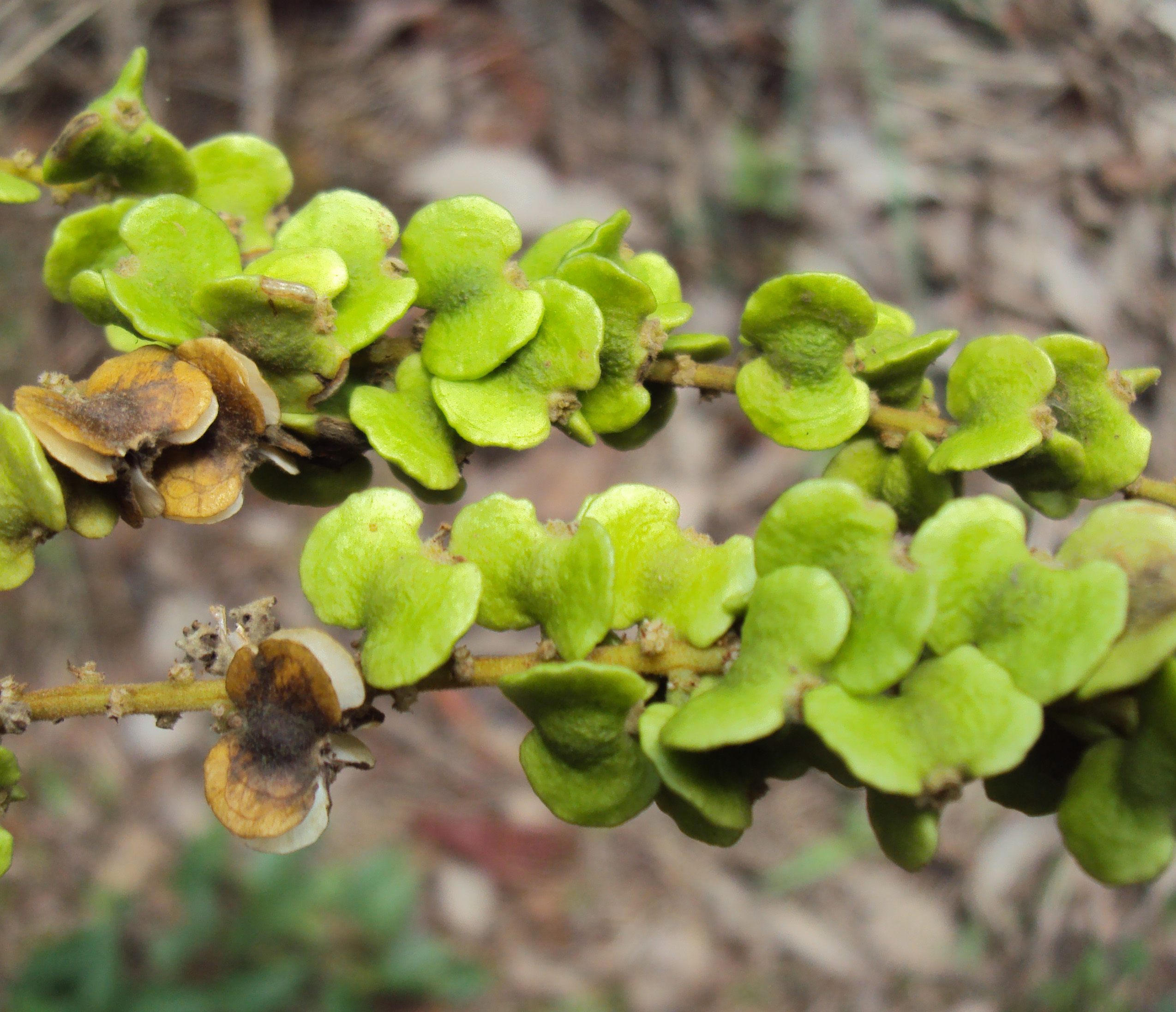 Gouania microcarpaGouania microcarpa